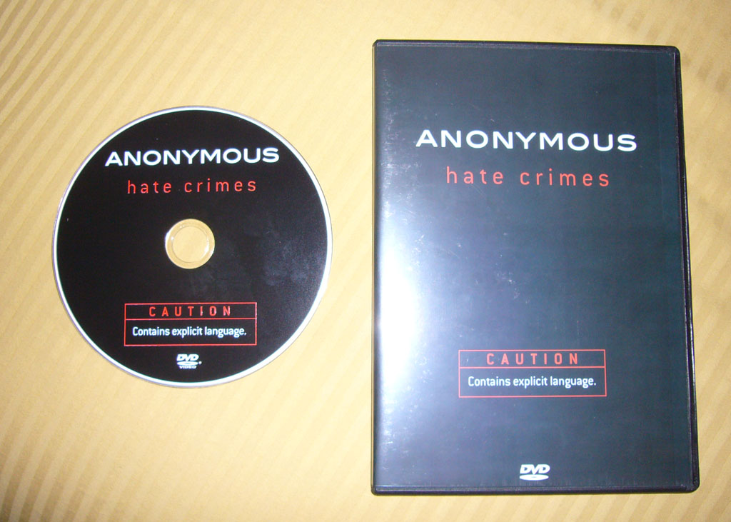 Picture of the "Anonymous Hate Crimes" DVD produced by the Church of Scientology.